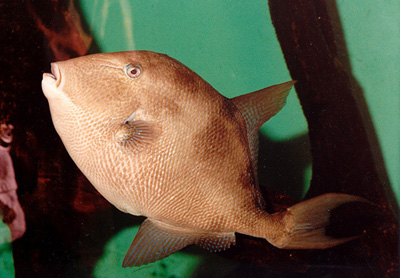 Grey Triggerfish (Balistes capriscus), Courtesy Virginia Institute of Marine Science